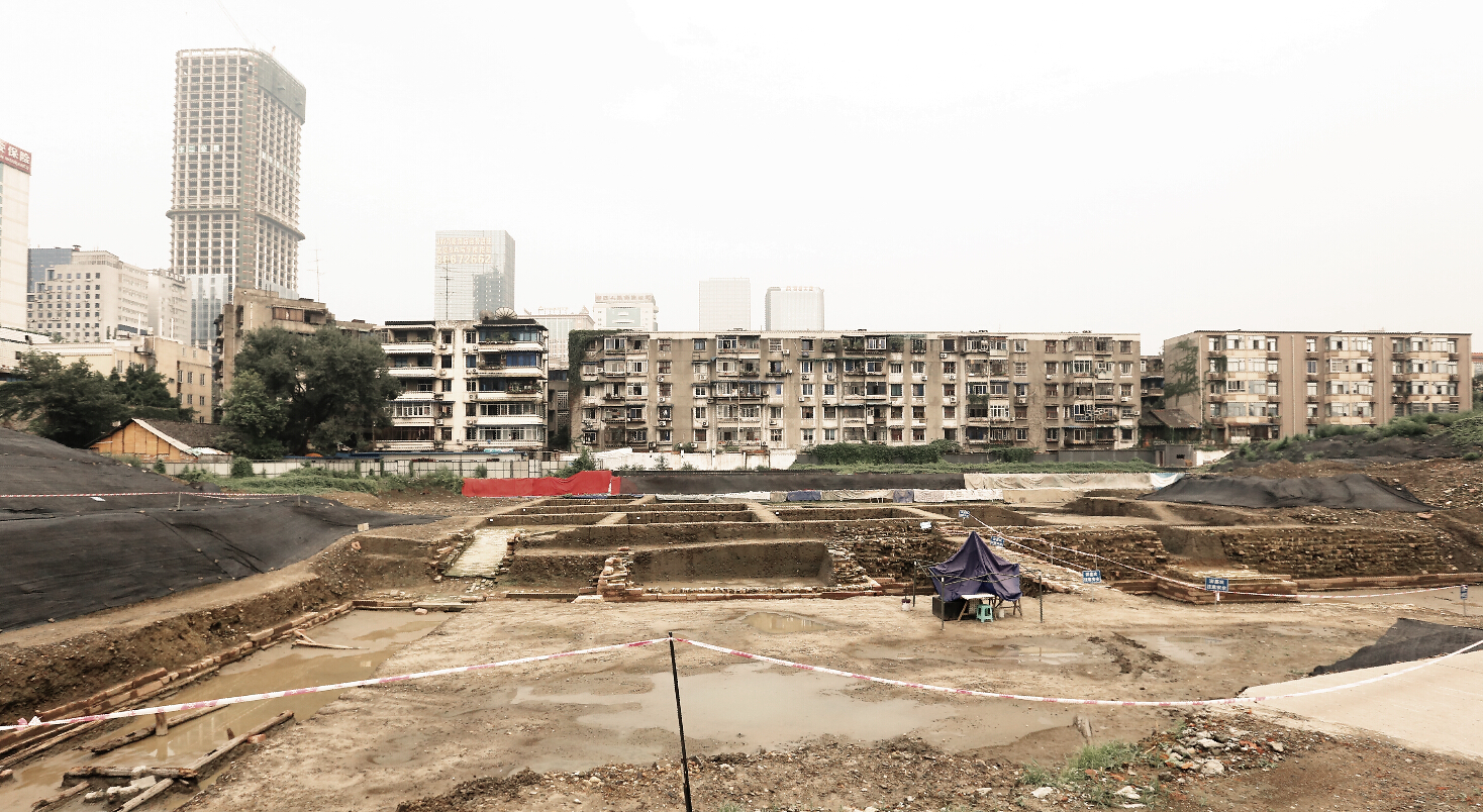 Donghuamen Site, located in Qingyang District, Chengdu, Sichuan, PRC.